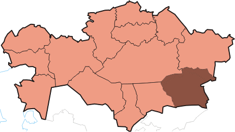 Map of Almaty Province